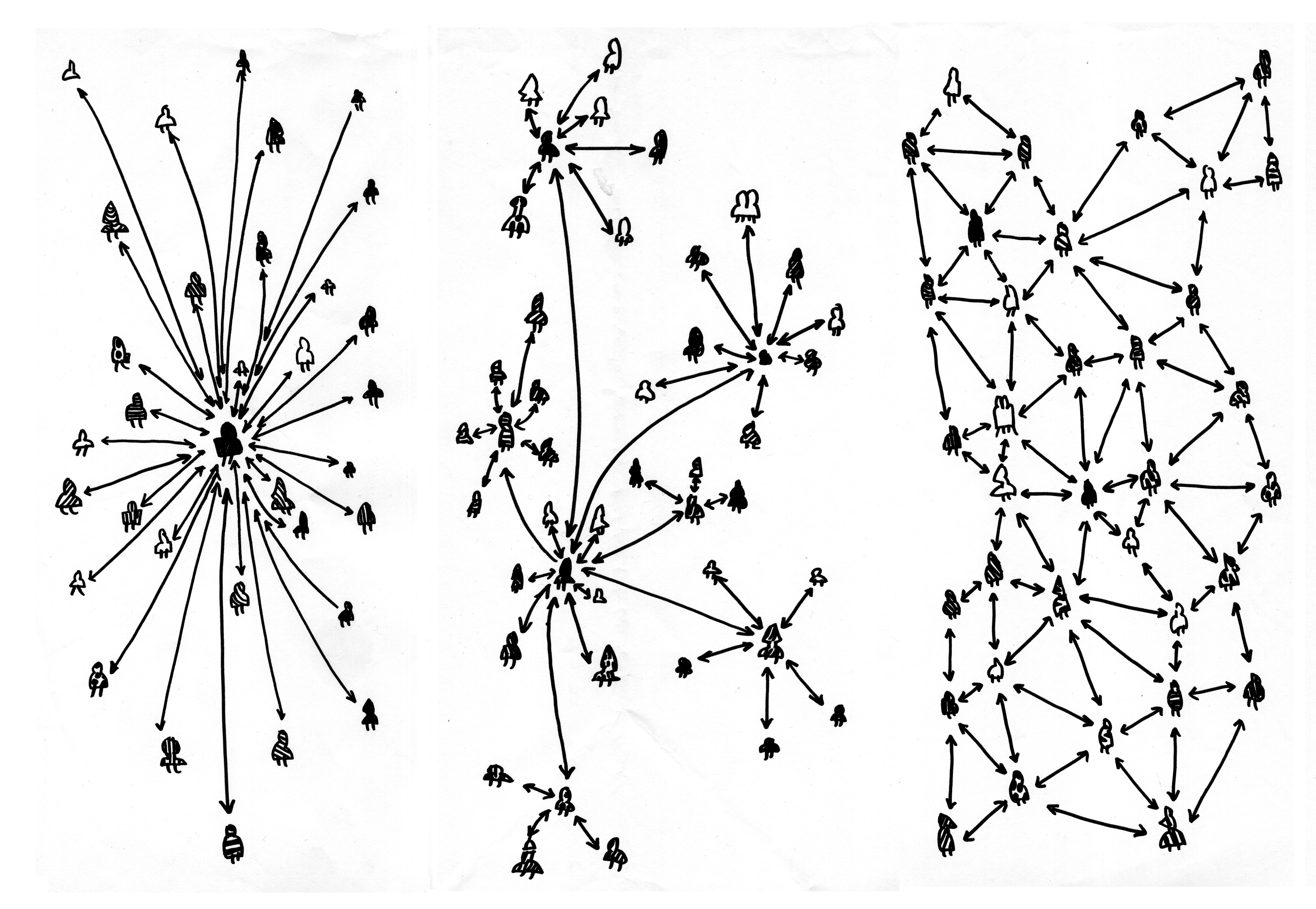 Graph trying to explain P2P network topology